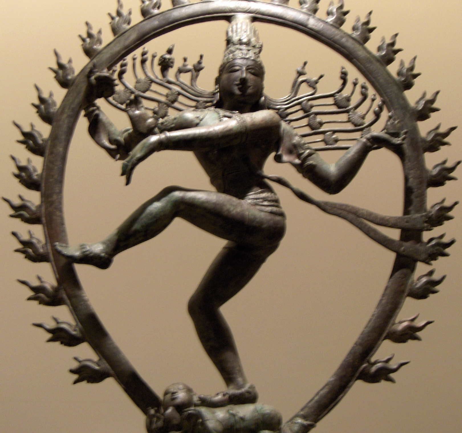 Shiva dansant, Inde, période Cola, Musée Guimet, Paris. Comment: This Nataraj (which was a gift of C.T. Loo) has a mustache, a feature never found in Chola sculpture. It is likely that this bronze dates from the 19th century, and somehow has been accepted into the corpus of Indian Art. There are many dubious sculptures and paintings from CT Loo, and this complex issue deserves further documentation. In illustrating articles on Chola art, photos of controversial bronzes should not be included.